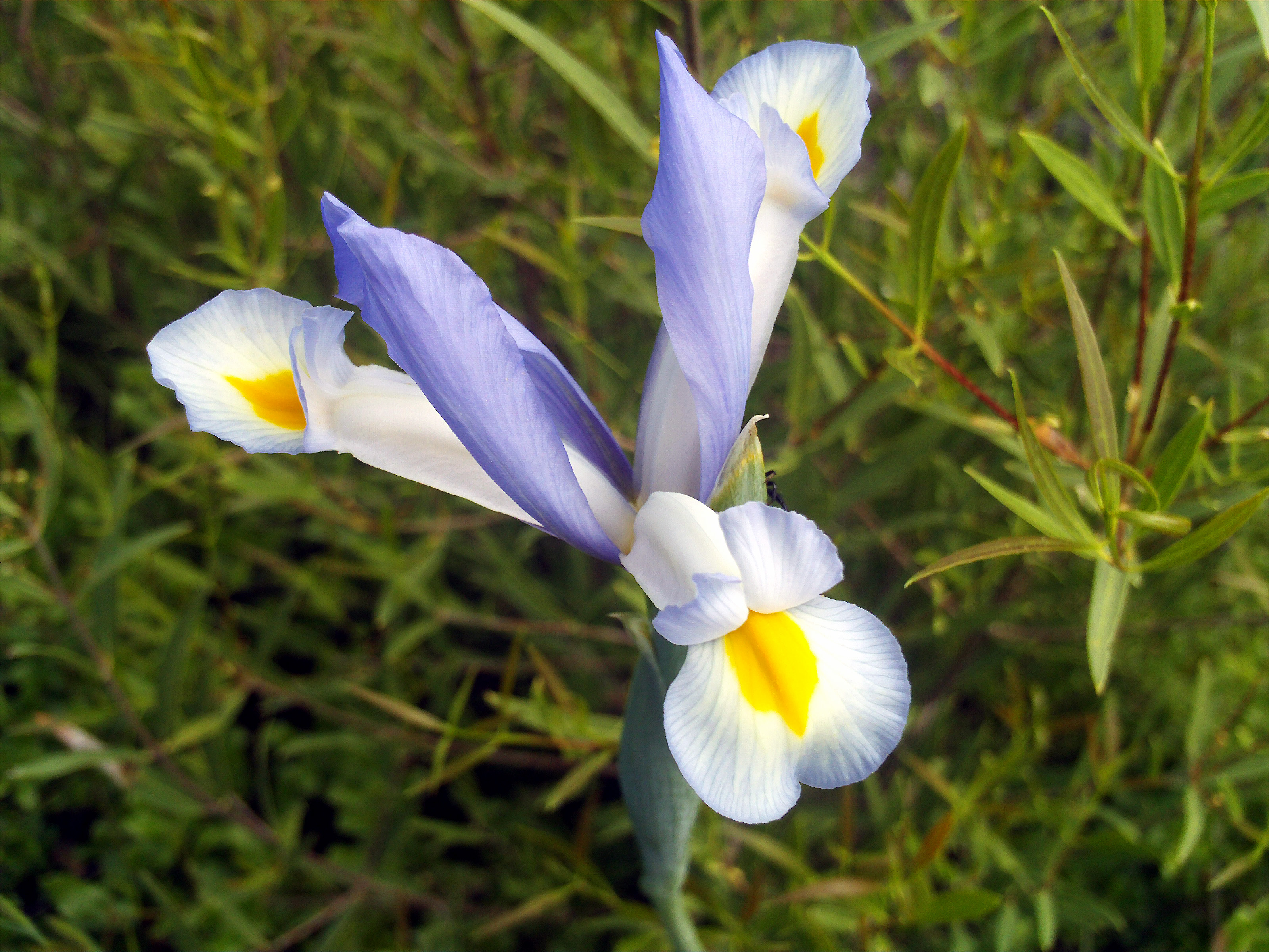 Iris xiphium Flower closeup, Dehesa Boyal de Puertollano, Spain